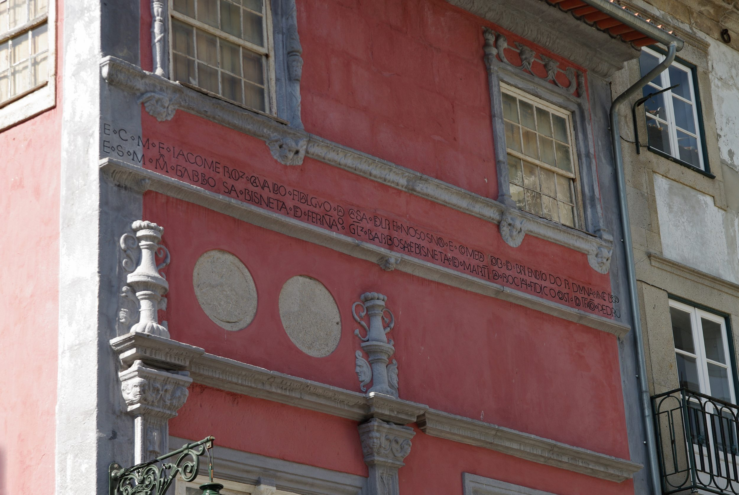 This file was uploaded for Wiki Loves Monuments in Portugal with the unique identifier 70310.